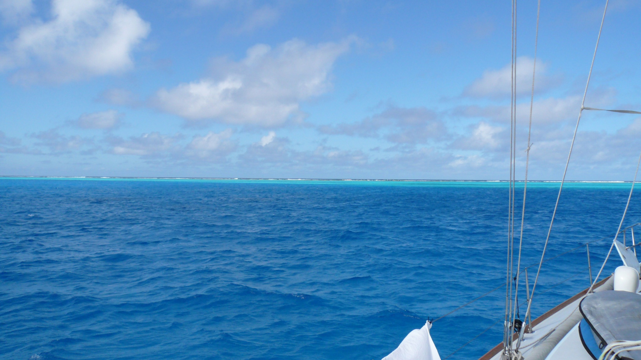 Beveridge Reef, southeast of Niue, South Pacific, after entering and anchoring, looking northward across lagoon